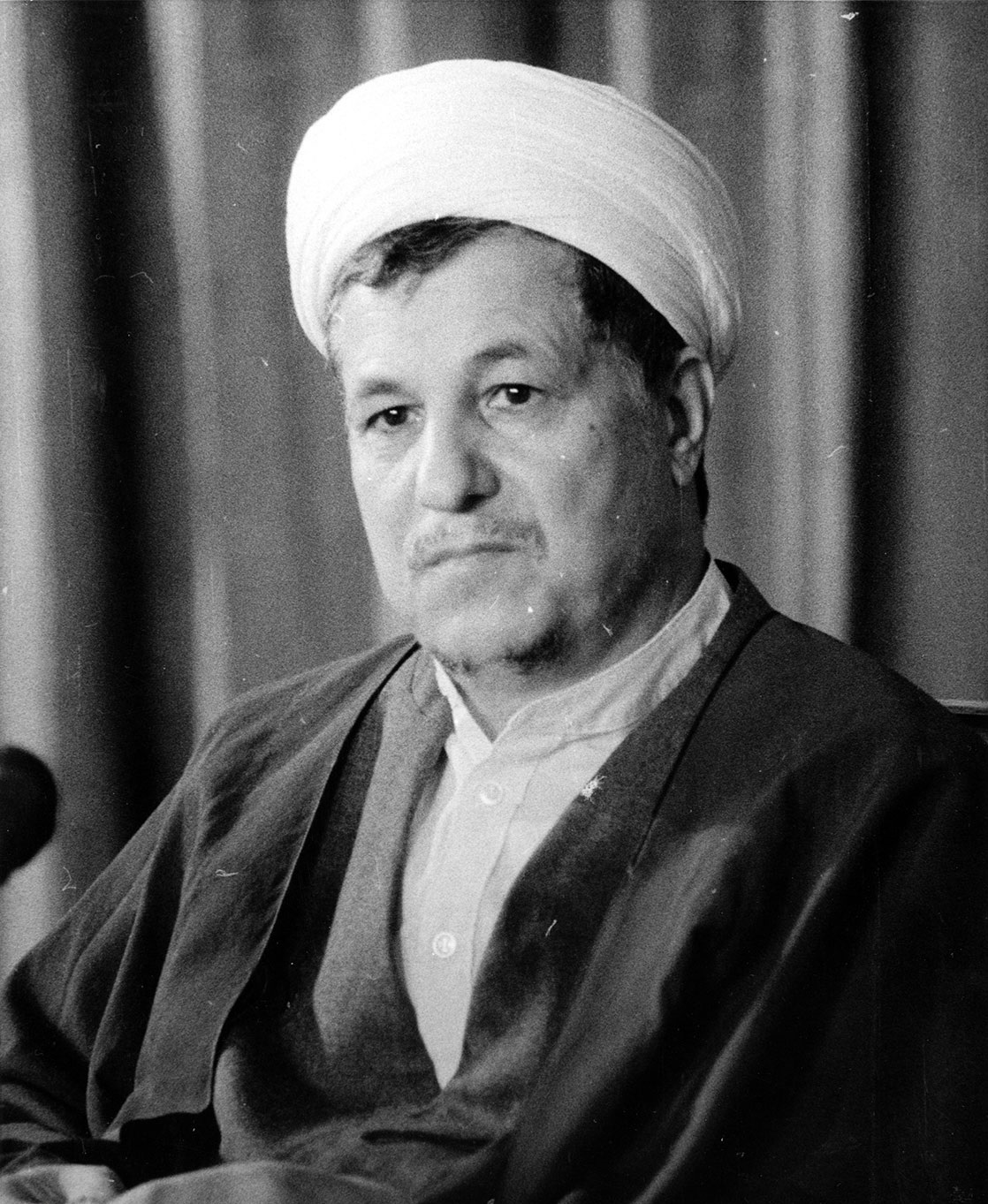 Akbar Hashemi Rafsanjani during a press conference, 1987. main album